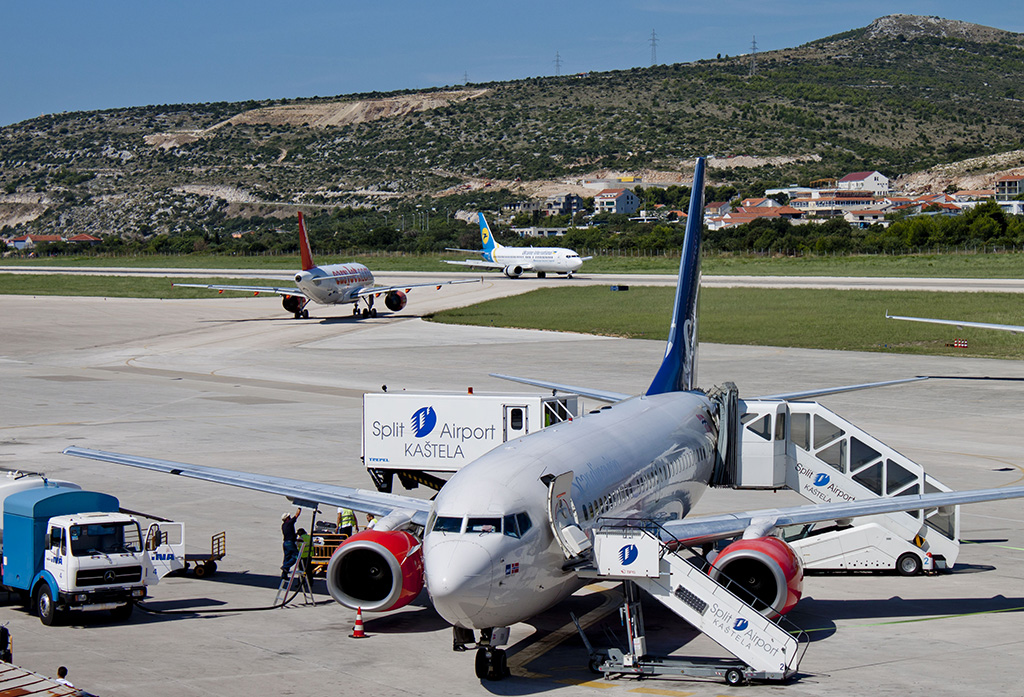 Traffic at Split Airport